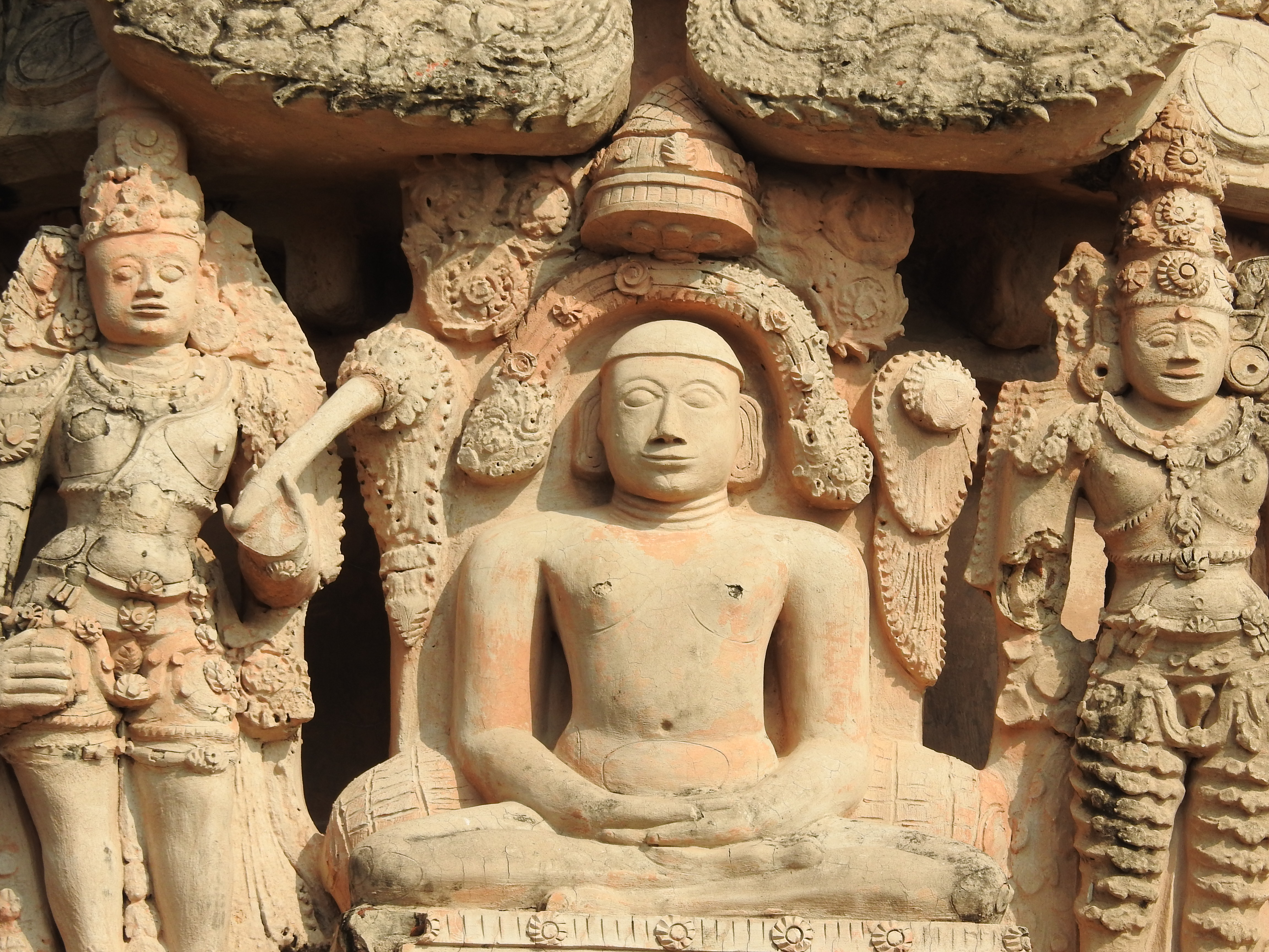 திருமலை சமணர் கோயில்